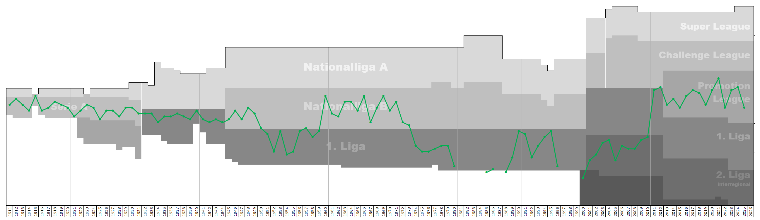 Chart of end-season table positions for SC Brühl in the Swiss football league system. Data source: RSSSF, , al-la.ch